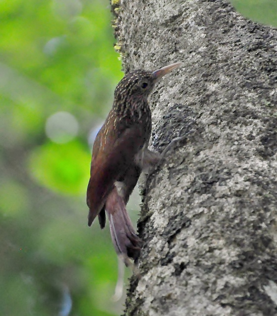 Xiphorhynchus elegans subsp. ornatus photographed in the Amazon, Brazil, in November 2010.